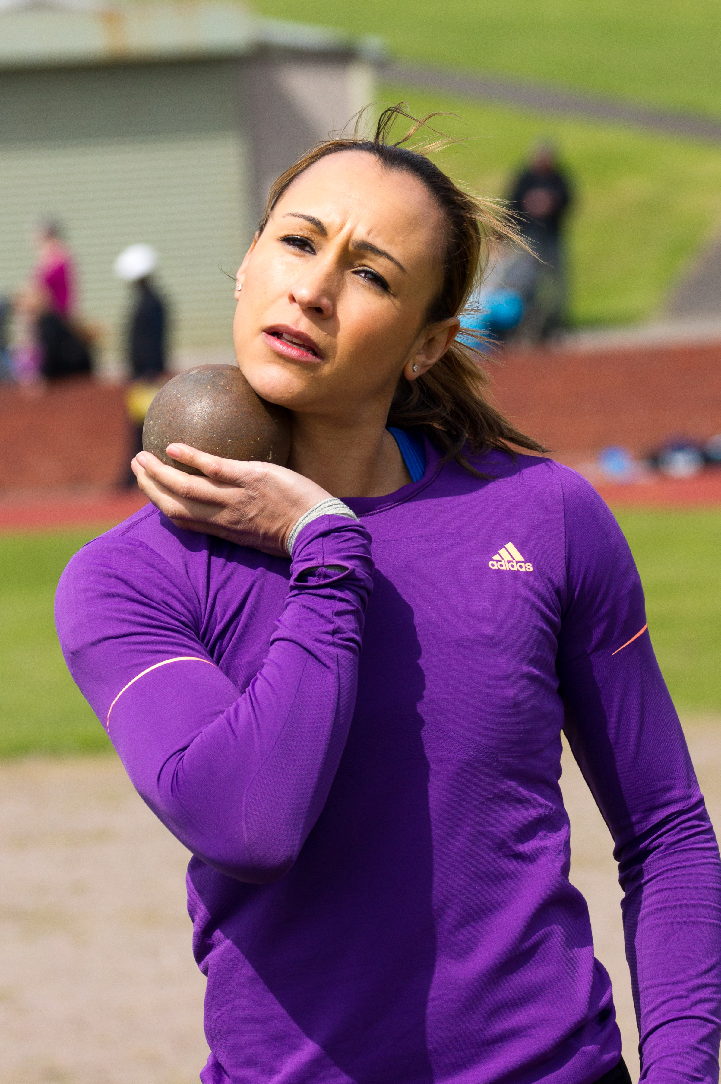 Jessica Ennis with a shot put at the Dorothy Hyman Sports Centre, Cudworth, South Yorkshire, England. She was competing at the Yorkshire Track and Field Championships 2012 on 13 May 2012.